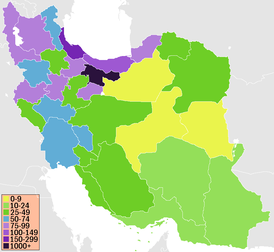 Population density per province in Iran